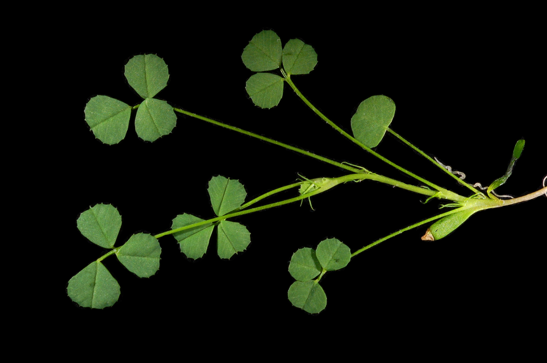 The shoot of a 4-week-old Medicago praecox.